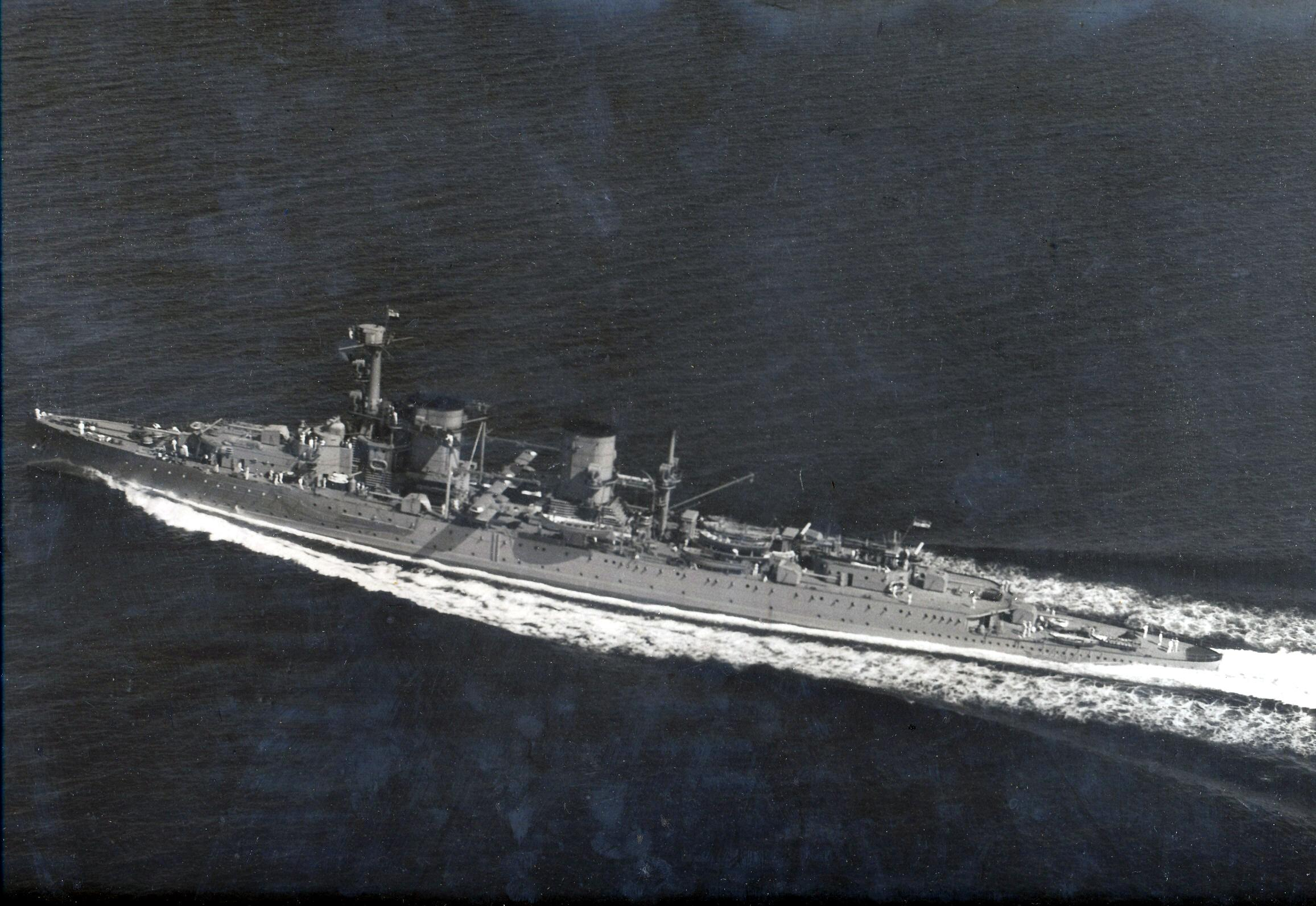 Dutch Navy Java Class Cruiser Hr.Ms Sumatra launched 1920 , sunk june 1944 as blockship at mulberry harbor normandy. this is a scan of a larger than A-4 original photo I have. I once made a note on that it was this ship , I am how ever not certain since there are several ships in this class. Java klasse kruiser originele foto afdruk uit de vooroorlogse periode . 40 X 28 cm